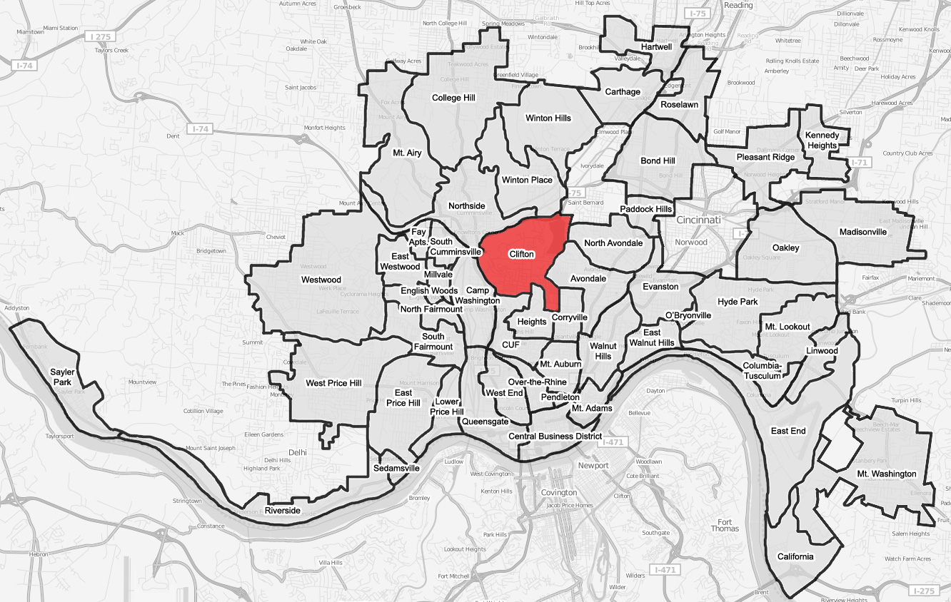 A map of the neighborhood of Clifton within Cincinnati, Ohio. Neighborhood lines are based on information from This street map is derived from a free map.